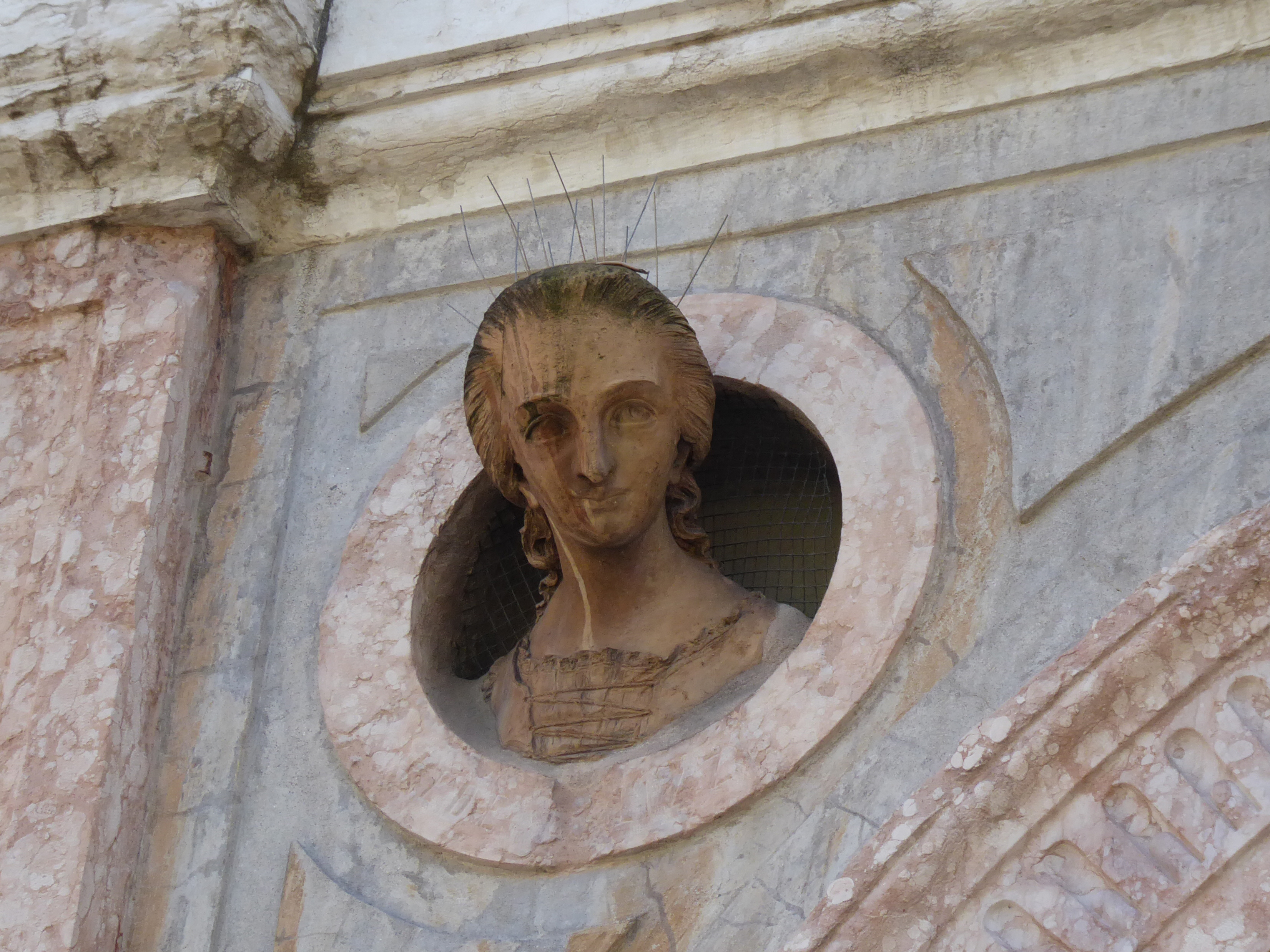 Busto of Fede Galizia on the facade of Palazzo Ranzi, in Trento, by Andrea Malfatti